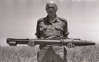 Brig. Gen. David Laskov with Yerboa rocket.